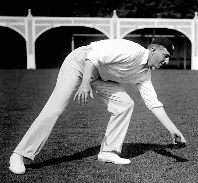 Warwick Windridge Armstrong, Victoria and Australia, circa 1905.